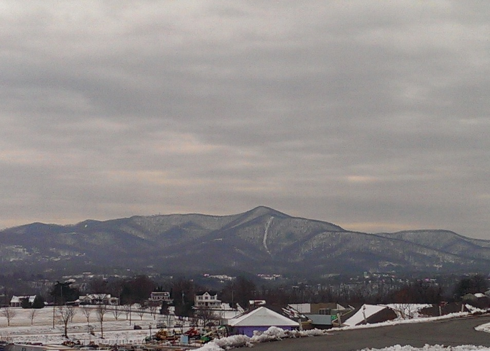 Twelve O'clock Knob as seen from the northeast